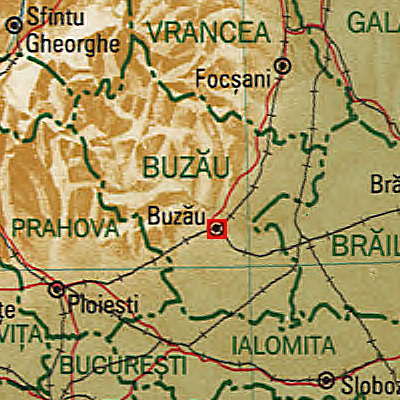 Map of Buzău Municipality, Romania.